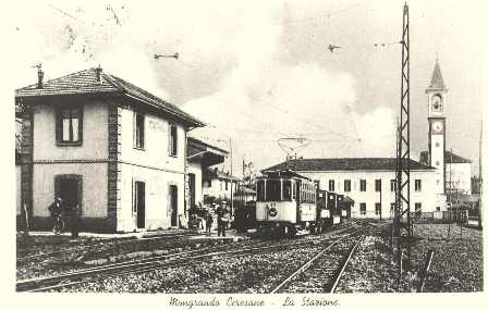 Mongrando railway station